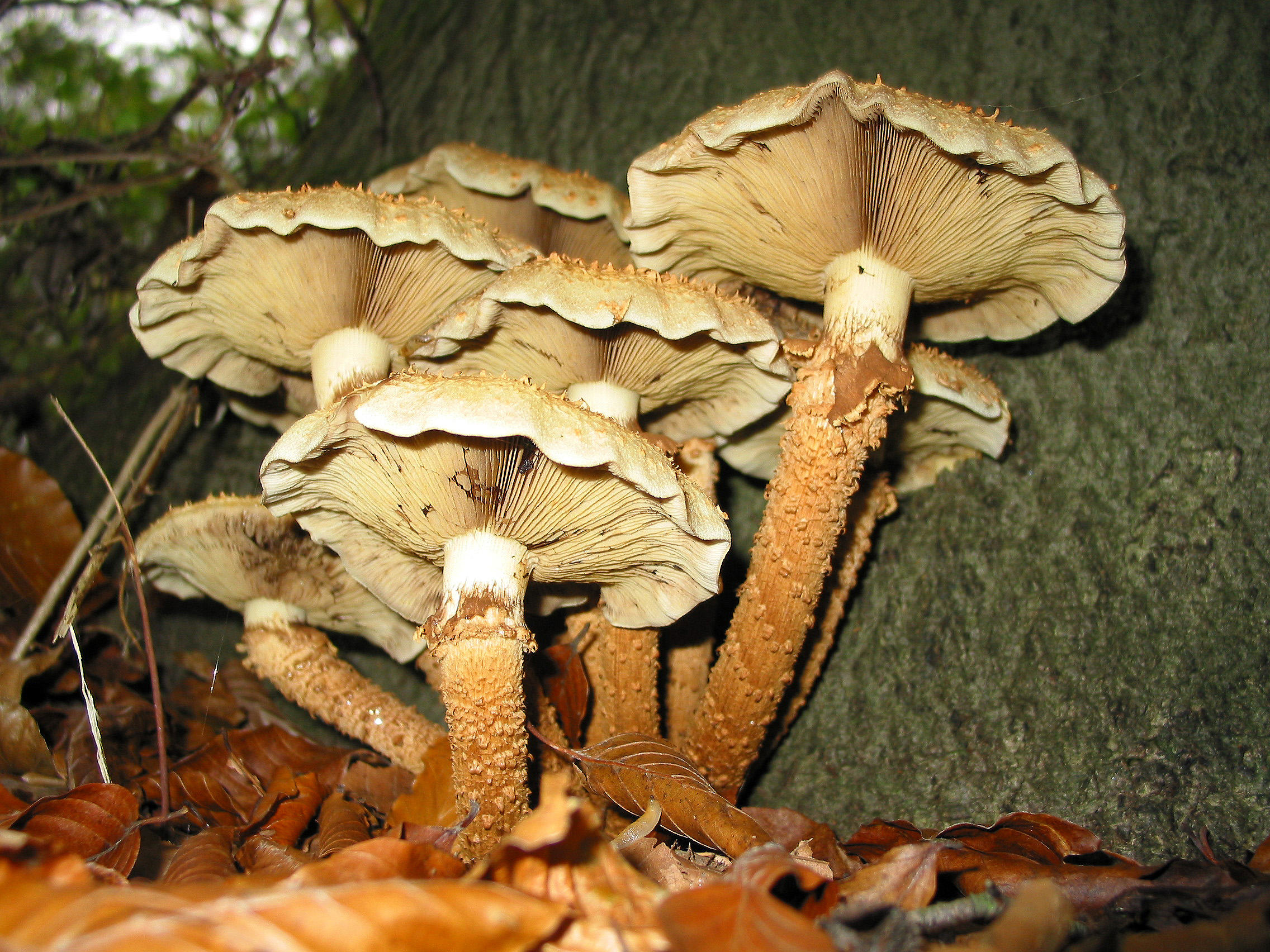 Shaggy scalycap, Havré, Belgium